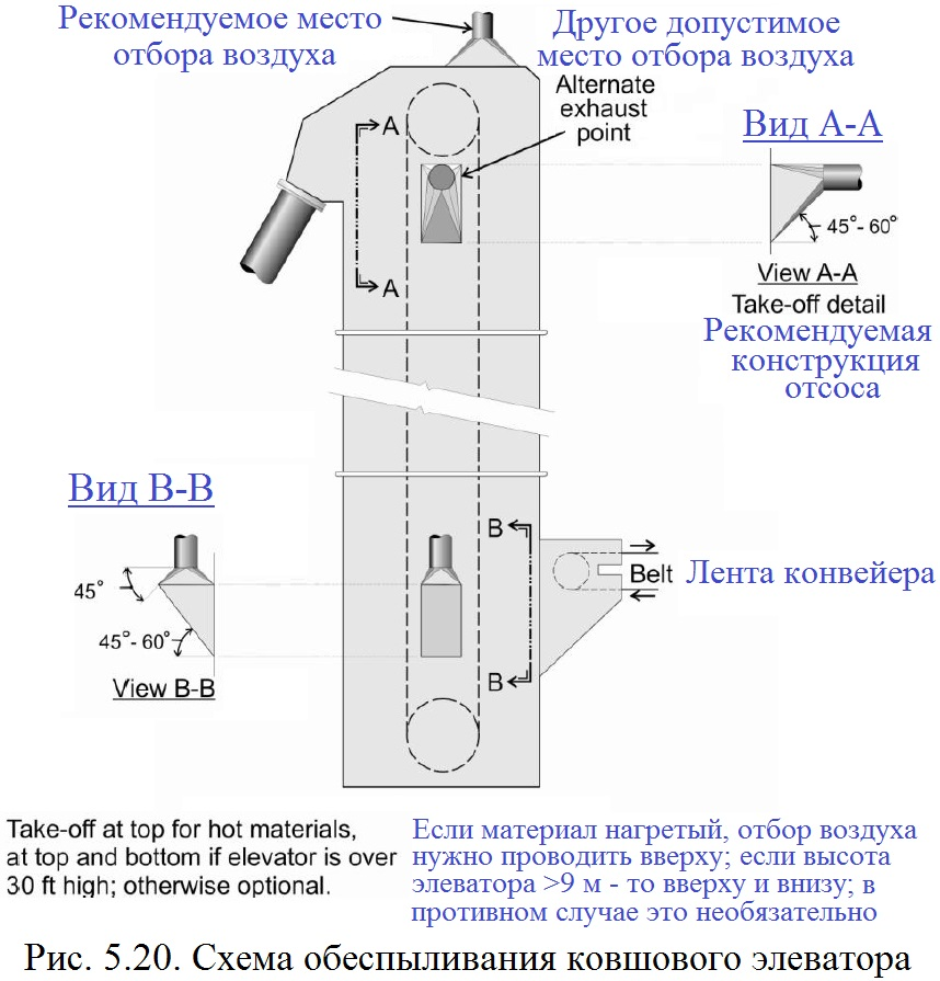 Figure 5.20. Depiction of a typical bucket elevator dust collection process.